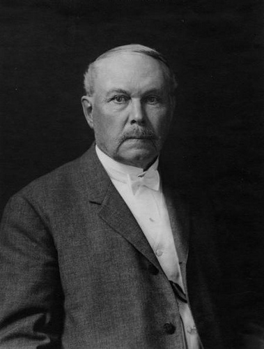 Photographic portrait of James Phinney Baxter (1831–1921), mayor of Portland, Maine, bibliophile and historian.